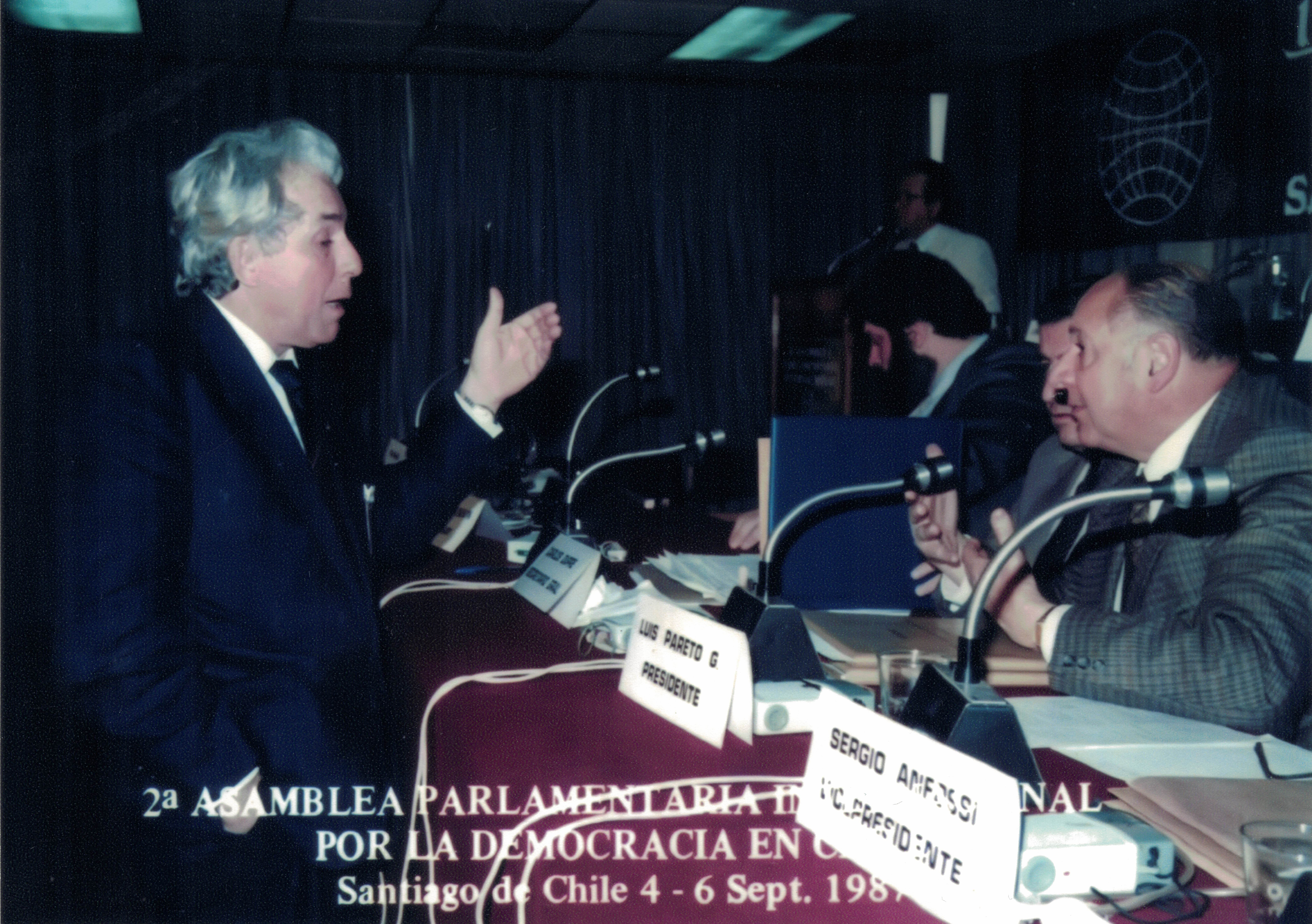 Agassiz Almeida discursando na 2a Assembléia Parlamentar pela Democracia em Santiago do Chile